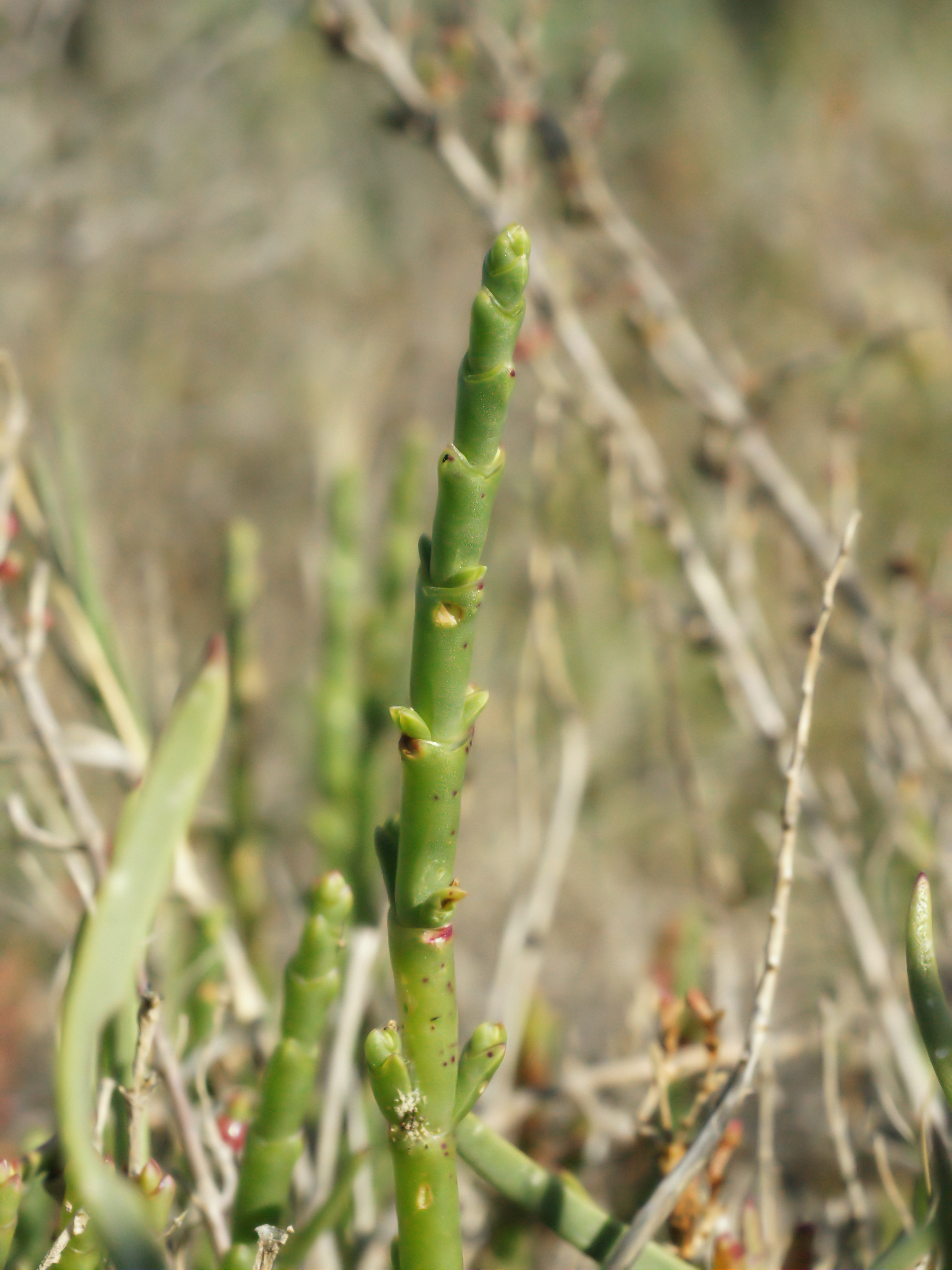 Glasswort. Close to San Giovanni di Sinis, Sardinia, Italy